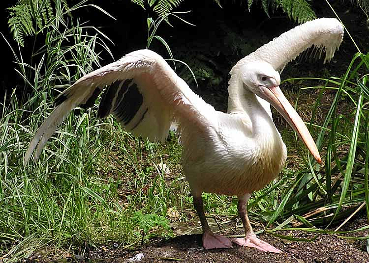 Great White Pelican at Combe Martin Wildlife and Dinosaur Park, North Devon, England. issue of english wikipédia File:Pelican.great.white.arp.750pix.jpg